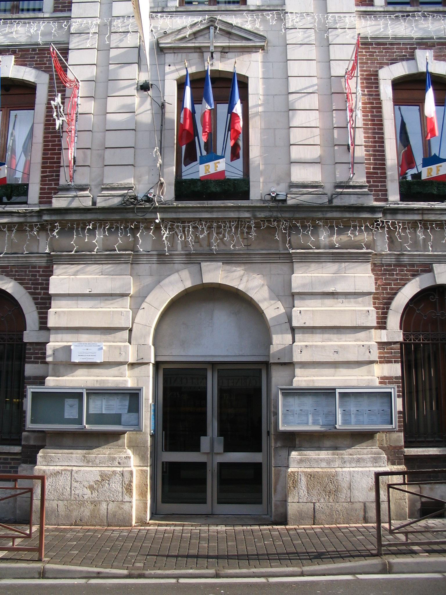 The town hall of Romilly-sur-Seine, Aube, France.